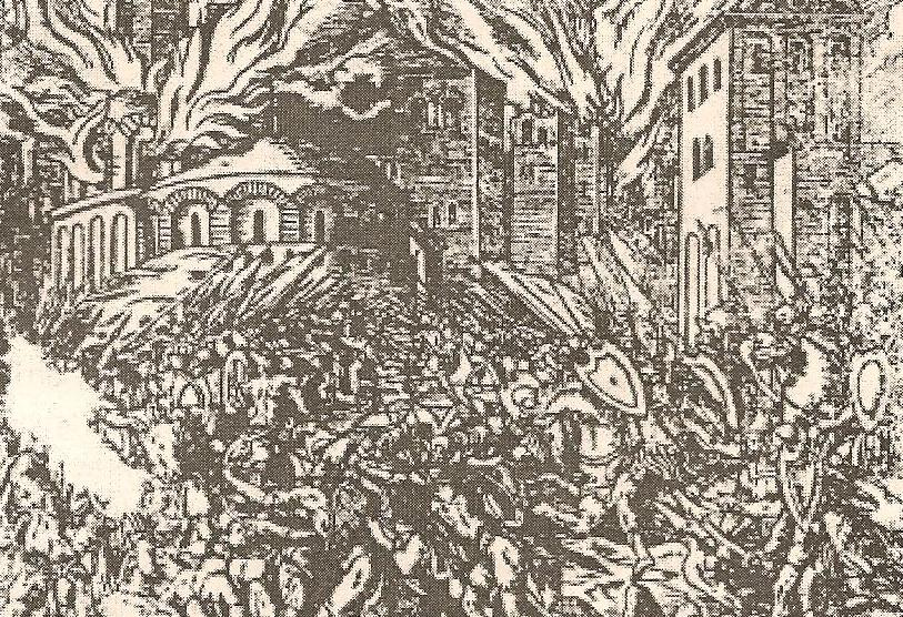 Engraving of an engagement during the siege of Sfetigrad.